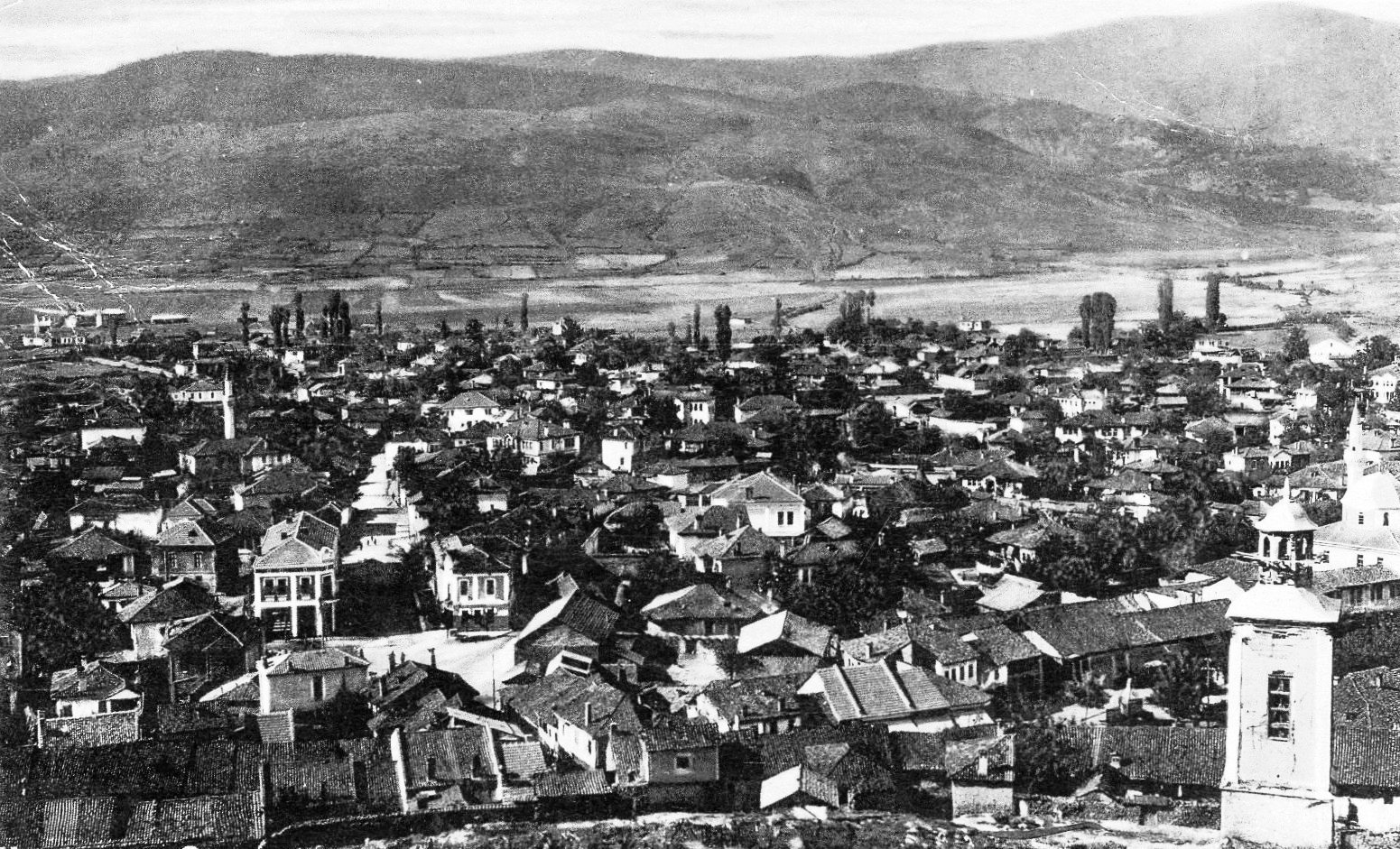 Postcard of Kičevo, 1935 This media file is produced by Wikipedian in Residence in Category:Wikipedian in Residence at DARM in 2016.